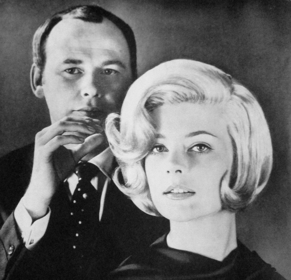 Photo of noted hairdresser Mr. Kenneth from a 1962 Clairol ad.